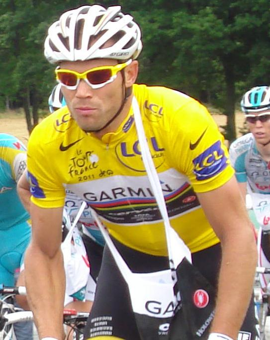 The cyclist Thor Hushovd in Tour de France 2011